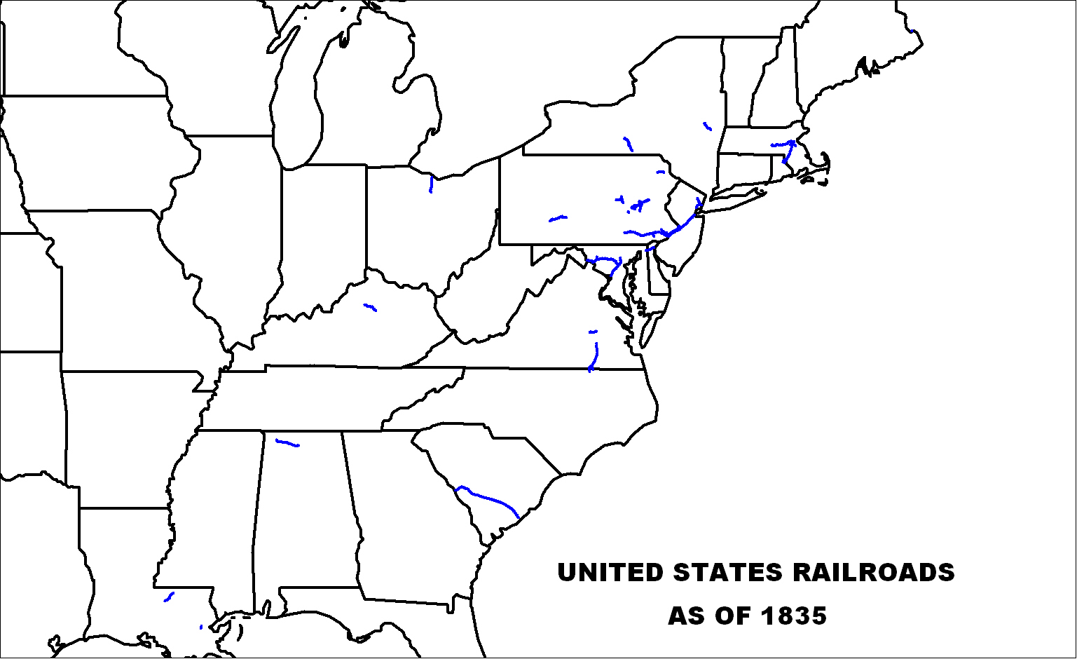 Map of Eastern United States showing Railroads in existence as of 1835.